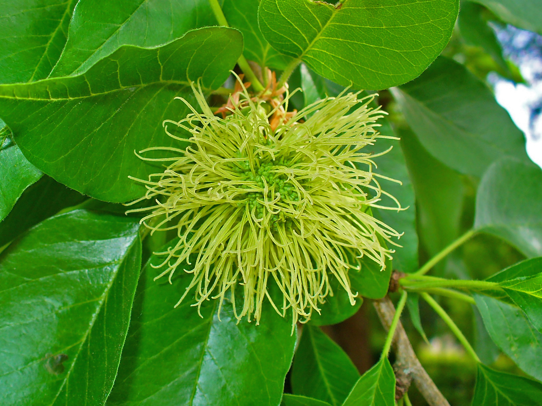 Maclura pomifera, Moraceae, Osage-orange, Horse-apple, Bois D'Arc, Bodark, female inflorescence; Botanical Garden KIT, Karlsruhe, Germany.